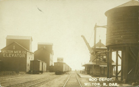 Photo postcard of the Soo Line Depot in Wilton, North Dakota. Source information from NDSU web site indicates a postmark date of Feb. 1914.